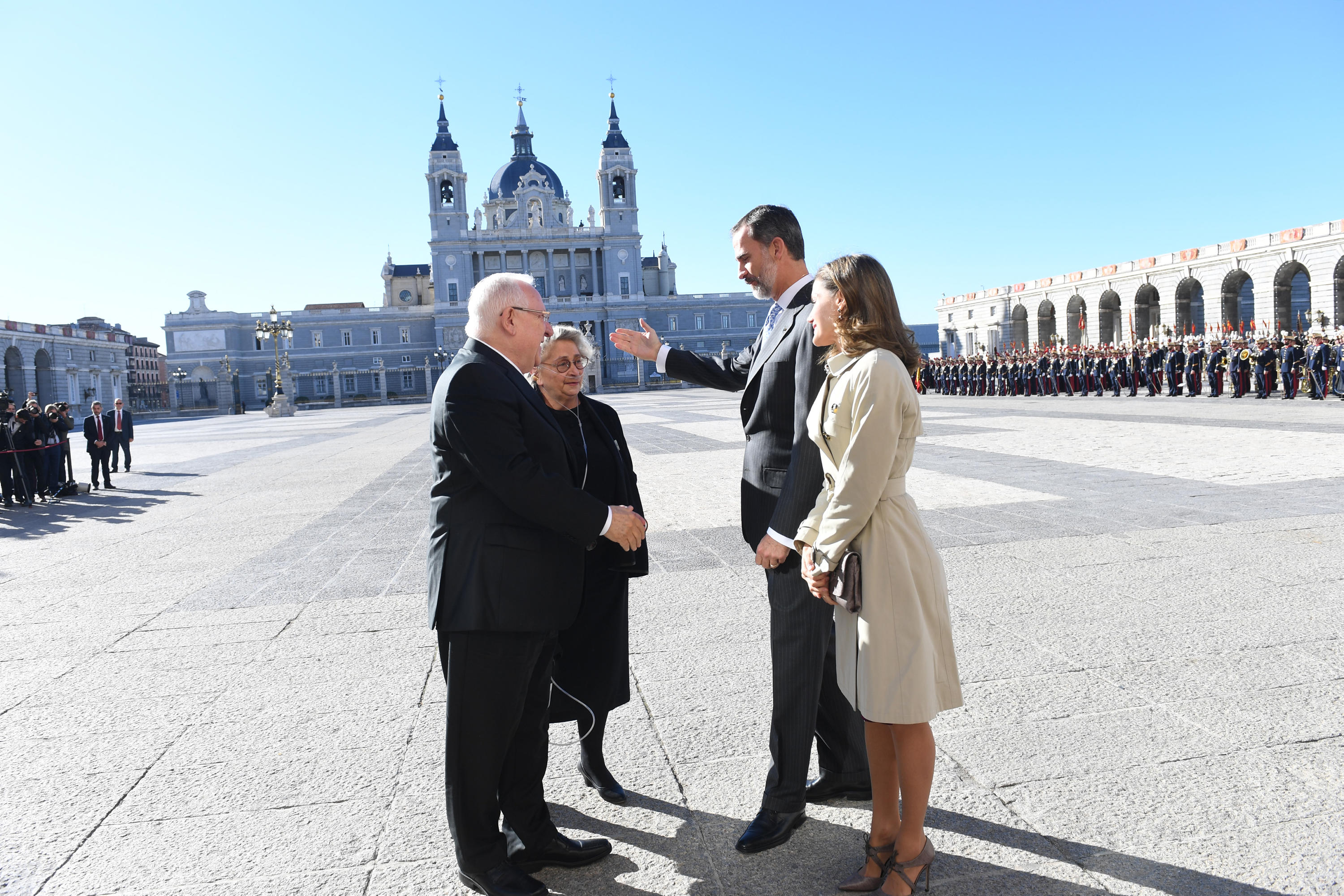 President of the State, Reuven Rivlin, at a special ceremony for a reception at the Spanish royal palace in honor of his arrival. Monday, November 6, 2017. Photo Credit: Haim Tzach / GPO